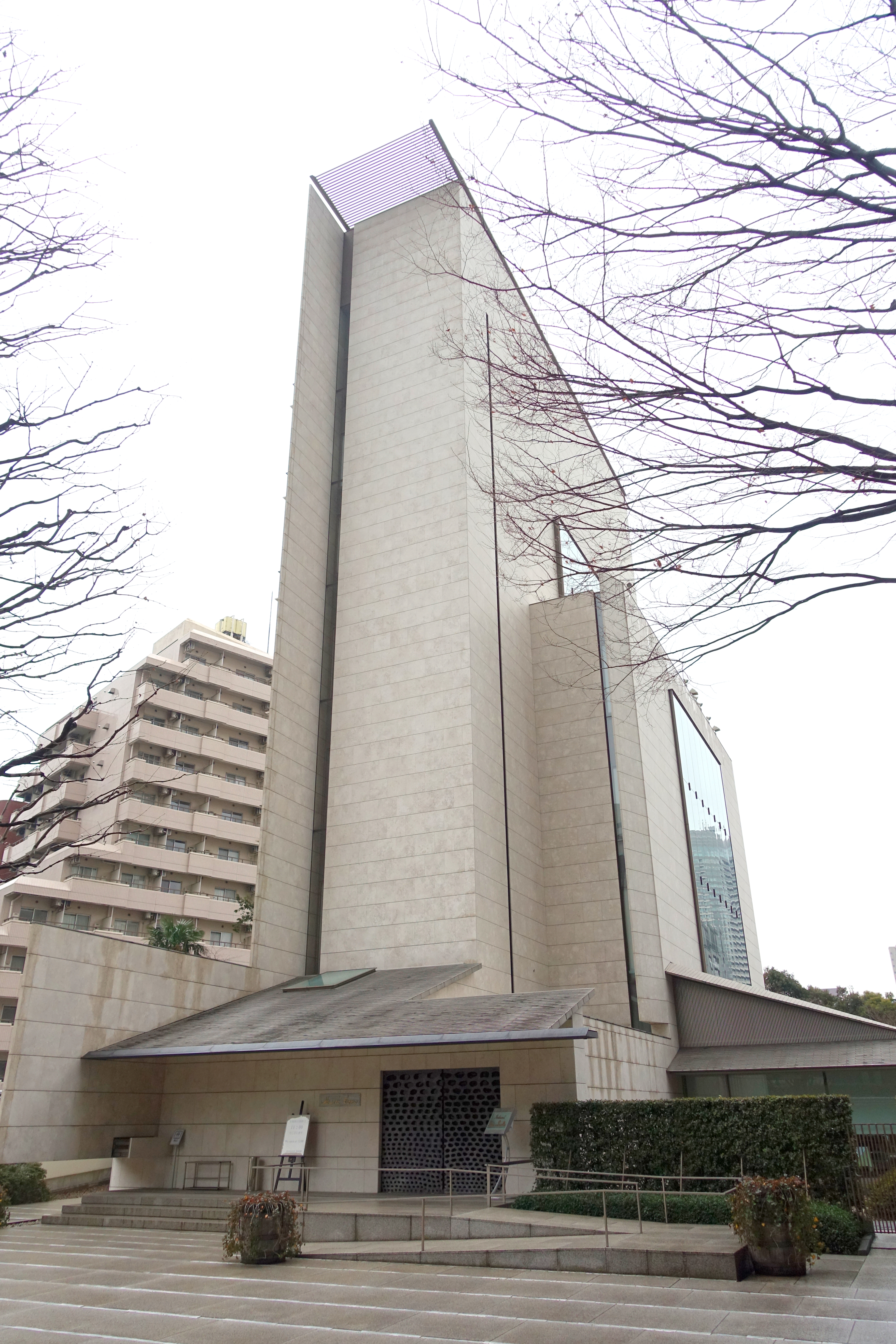 Musée Tomo - Tokyo, Japan. 〒105-0001 Tokyo, Minato, Toranomon, 4 Chome−1−35.